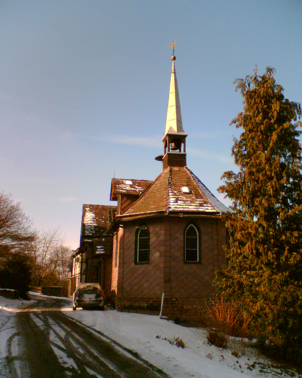 Chapel in Mühlenberg, Holzminden, Germany